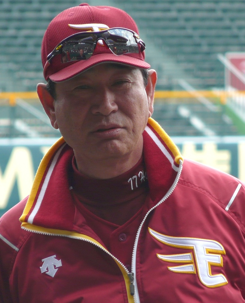 Senichi Hoshino, manager of the Tohoku Rakuten Golden Eagles, at Hanshin Koshien Stadium.